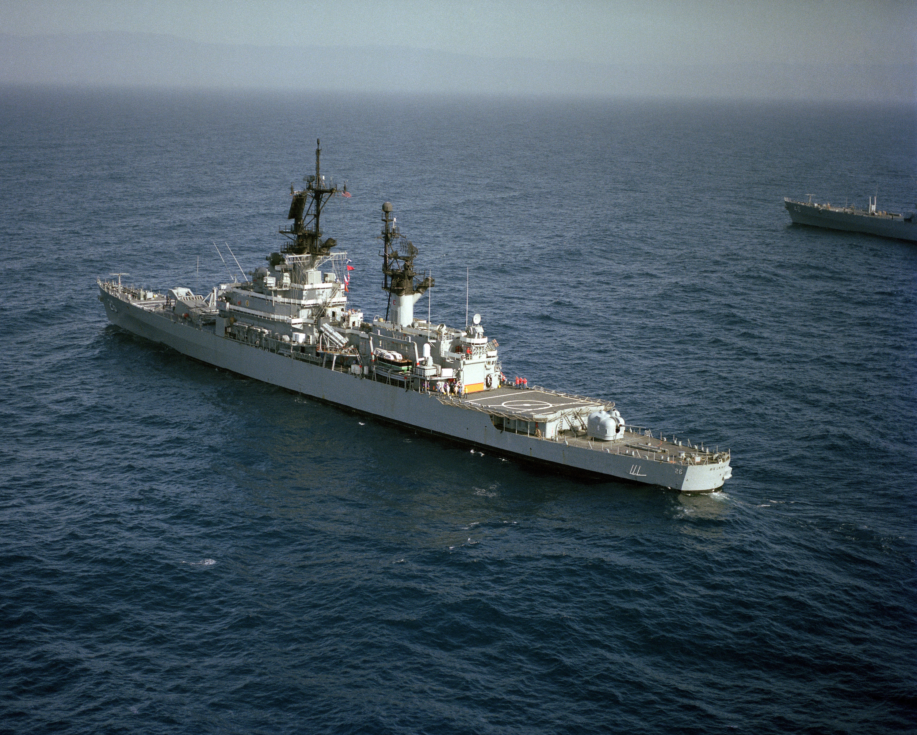 The U.S. Navy guided missile cruiser USS Belknap (CG-26) underway on 1 July 1987. The bow of USS Mississippi (CGN-40) is visble on the right. Note: The date given, 1 July 1978, has to be in correct, as Belknap was reconstructed at that time and was recommissioned only in 1980. The original file name "DN-SC-87-05622" leads to the assumption that the digits were transposed.